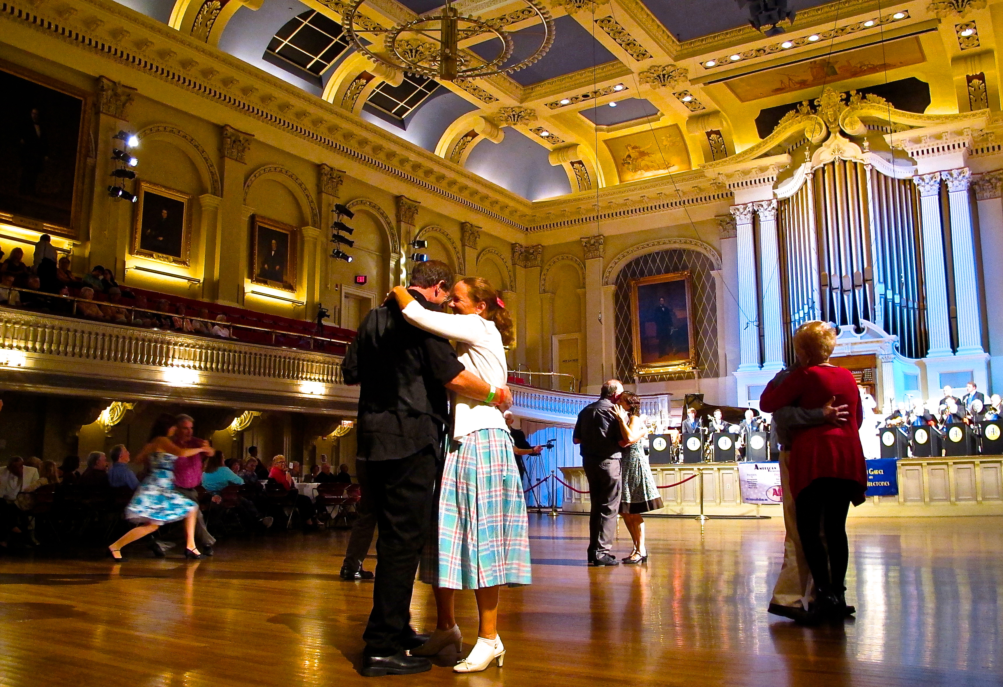 Mechanics Hall